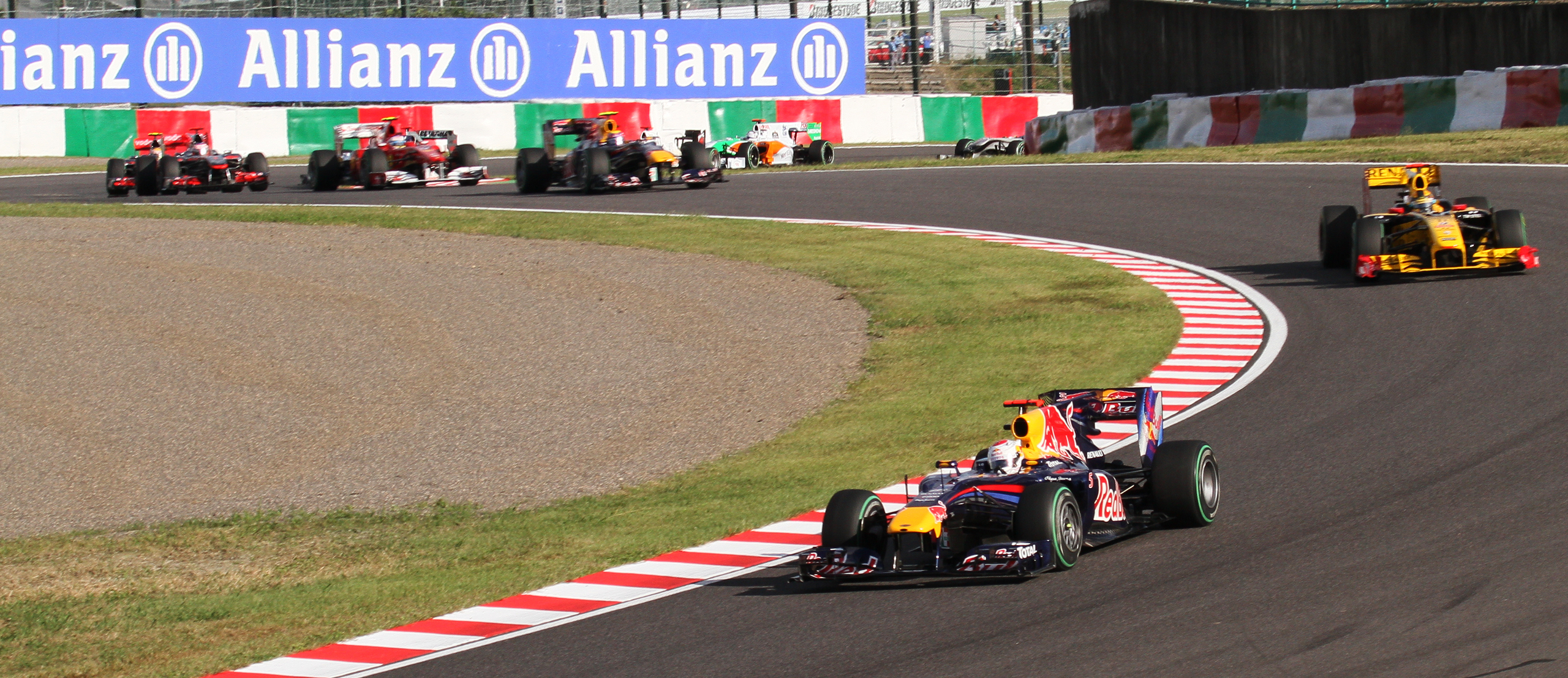 Formula One 2010 Rd.16 Japanese GP: opening lap at the 'S' (second) of the circuit.